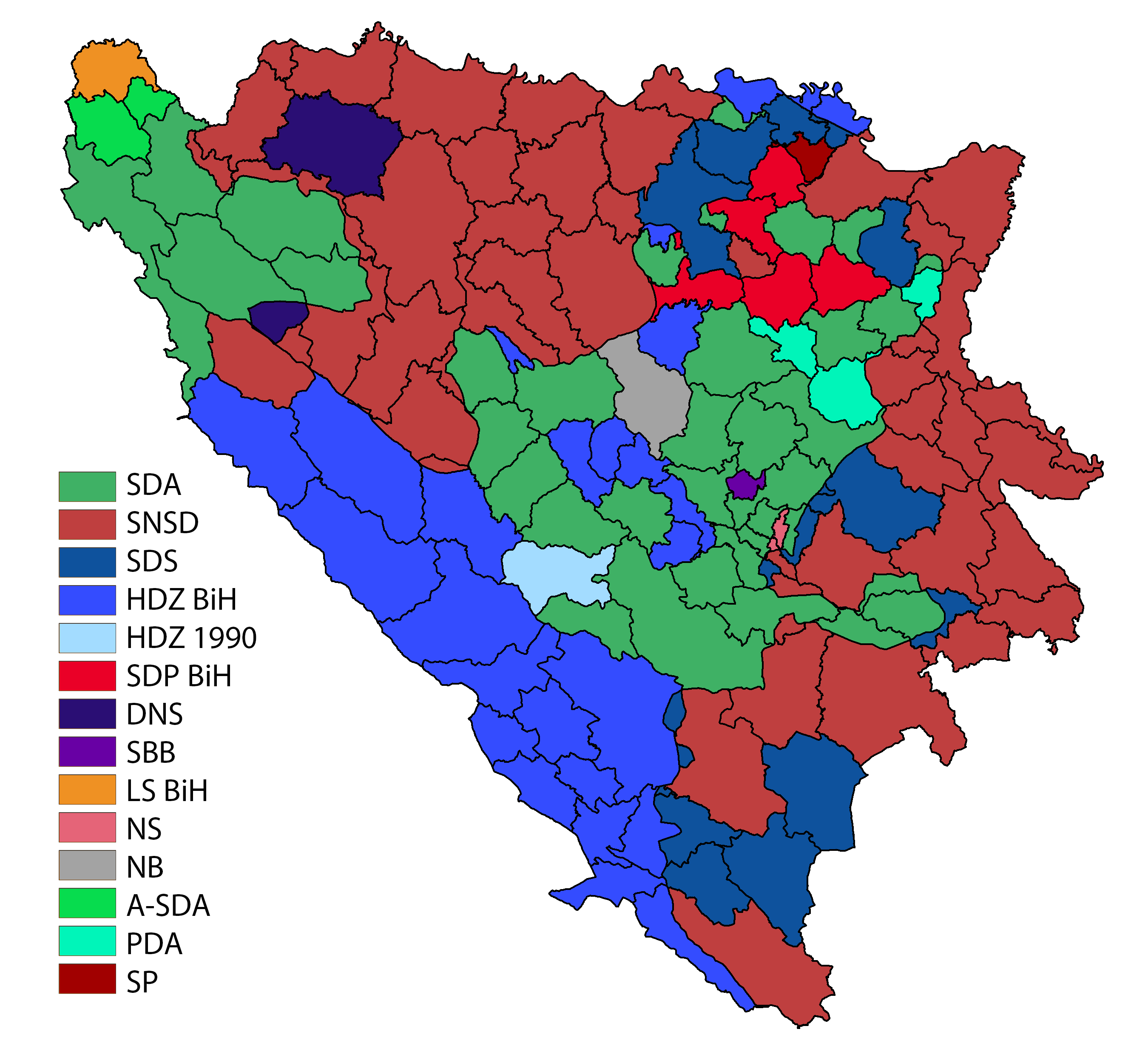 2018 election results for the Parliament of Bosnia and Herzegovina, based on the majority of votes in each municipality